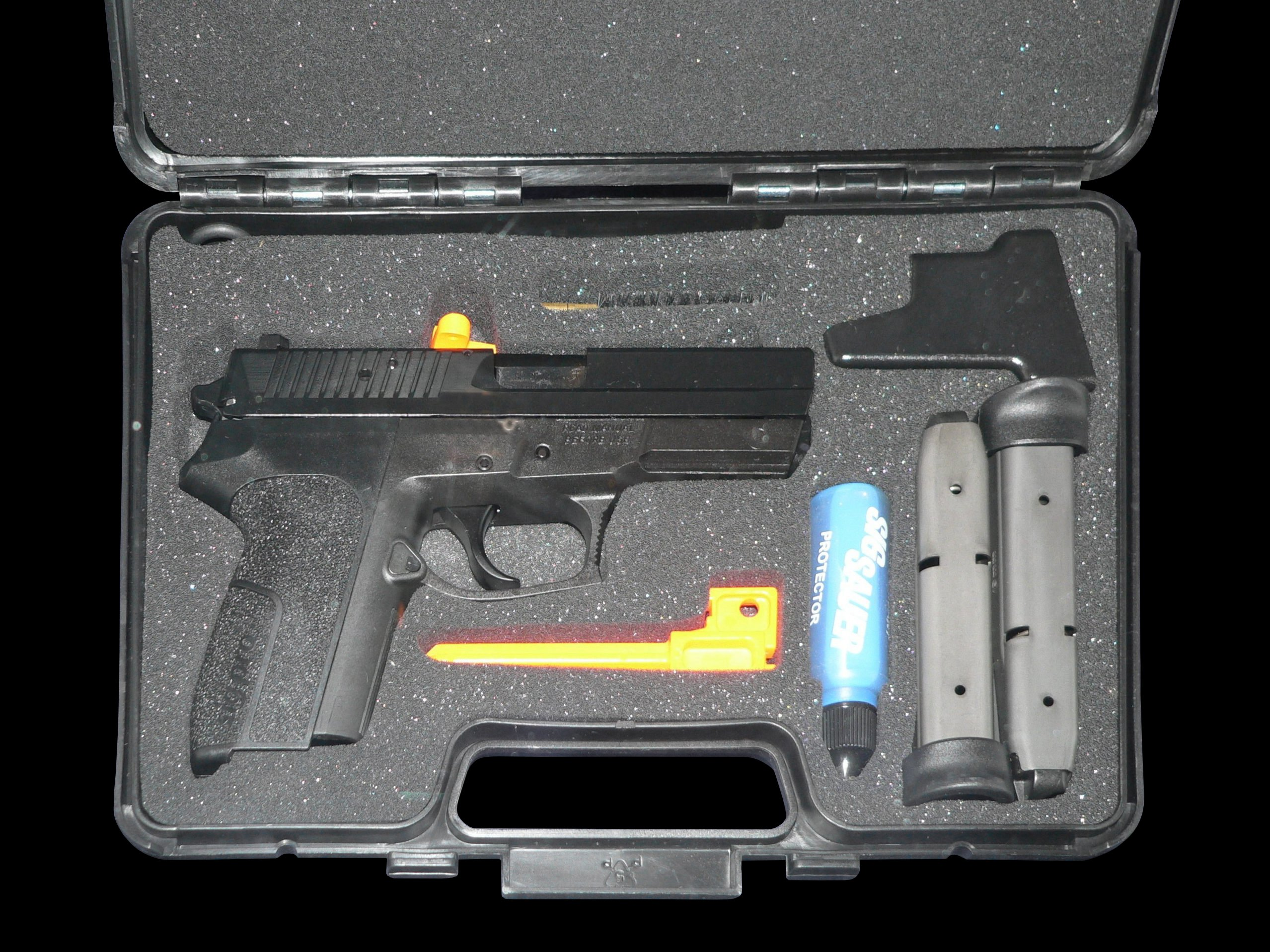 Sig Pro 2022